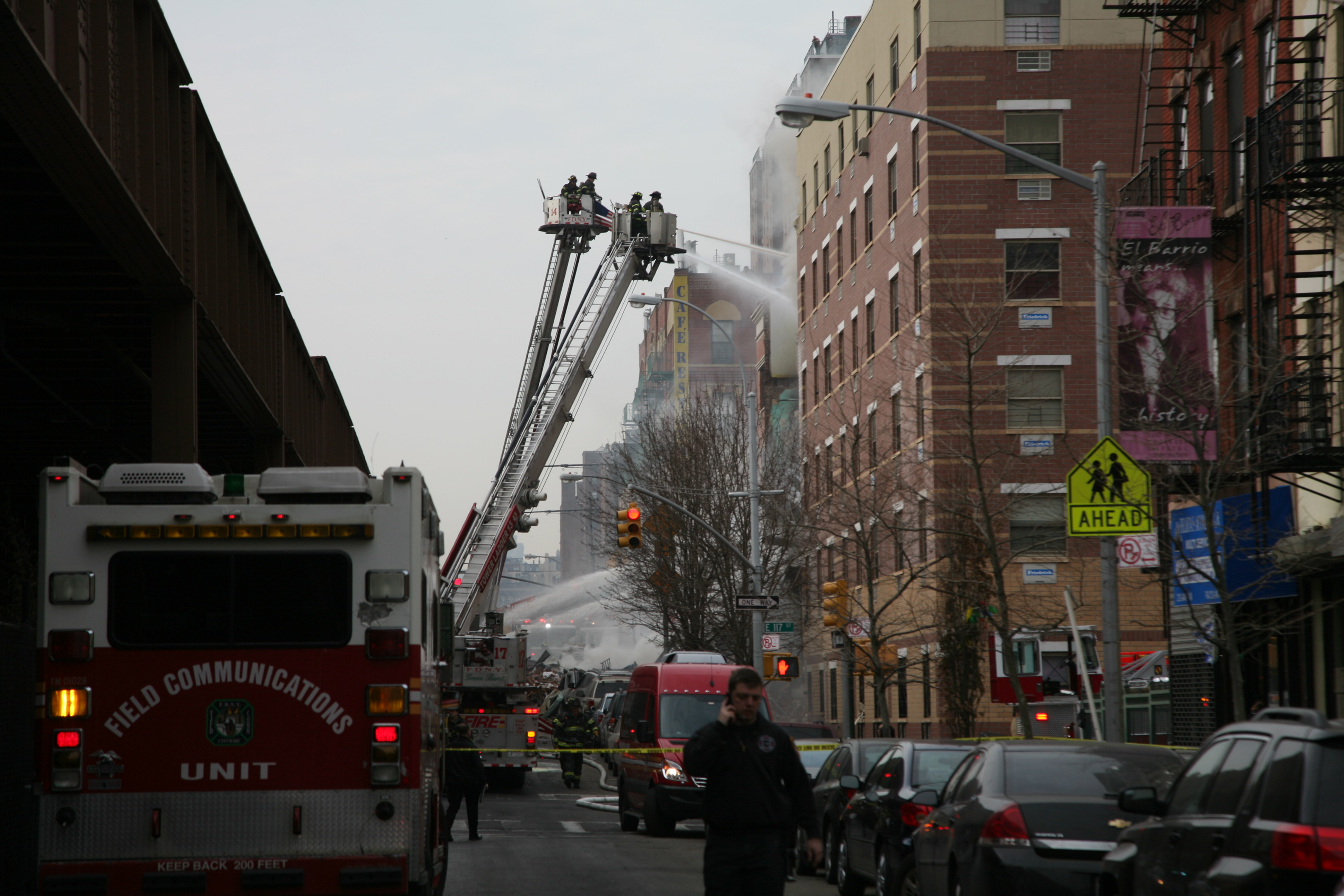 Street view of East Harlem apartment explosion, March 12, 2014; Photographer: Adnan Islam, released under CC-BY license, Twitter: @orangeadnan